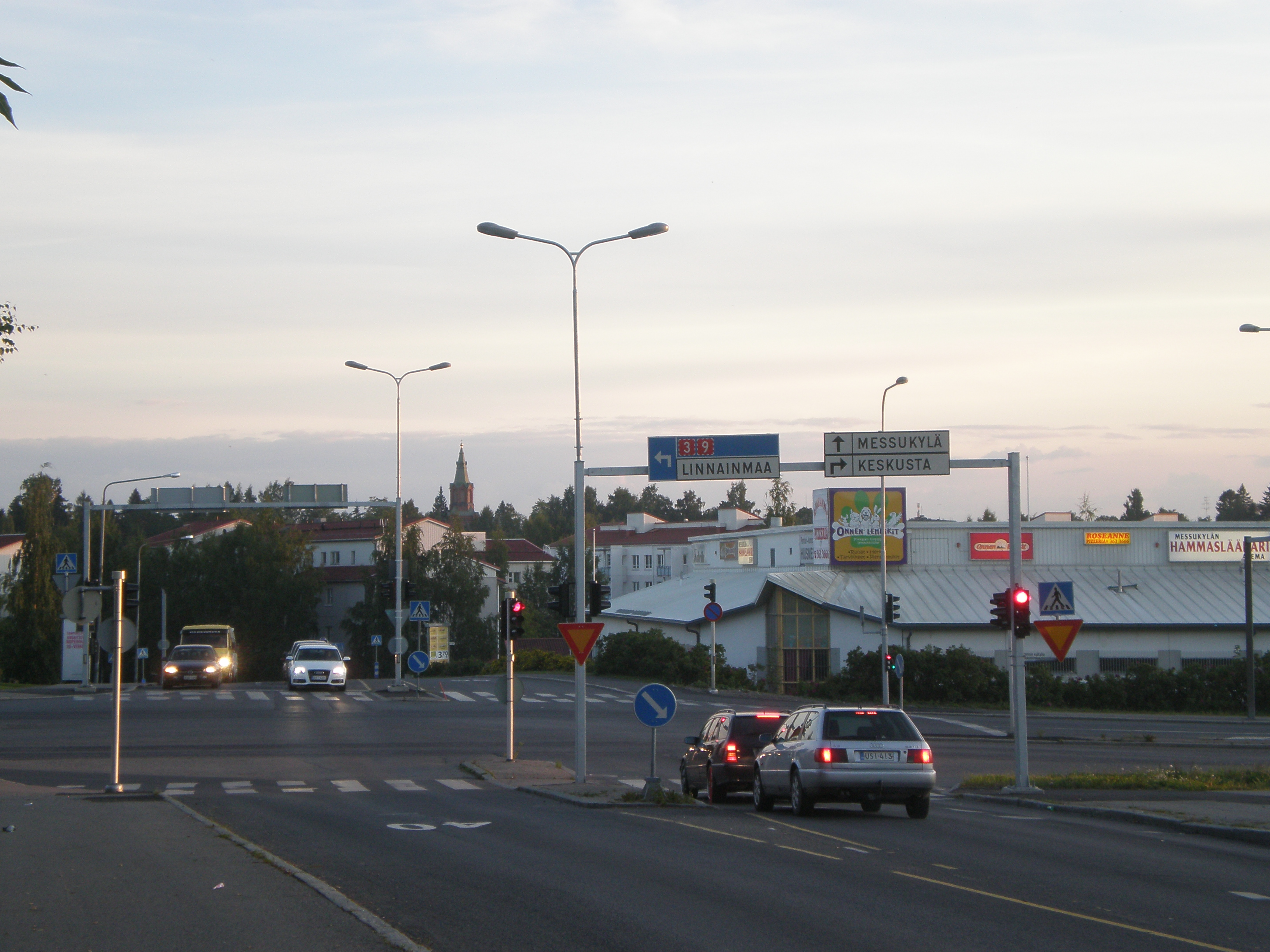 View from Pappila to the Ristinarkku district of Tampere. Messukylä church can be seen at the middle of picture.